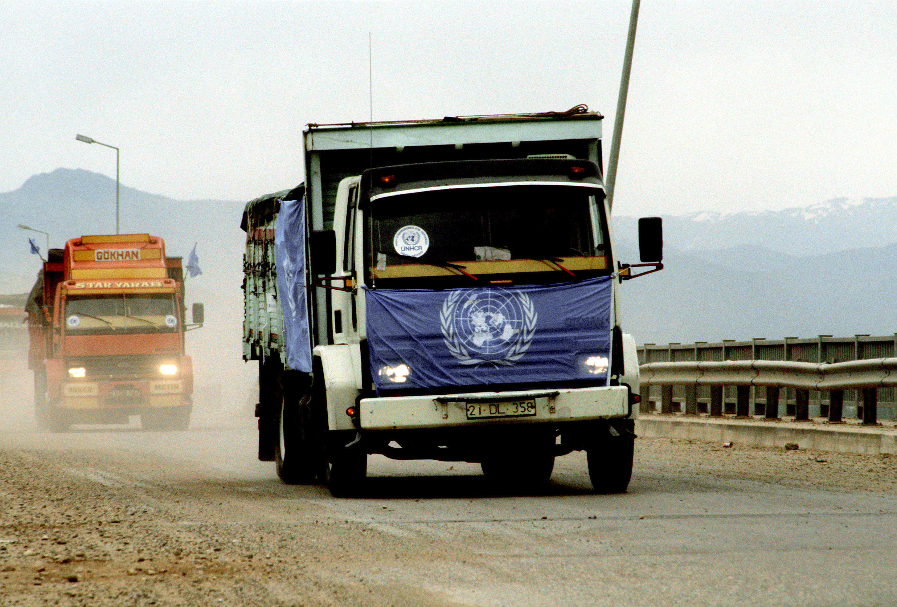 Trucks loaded with supplies and flying United Nations flags drive across the border from Turkey into Iraq. United Nations personnel are coming into Iraq to work with units taking part in Operation Provide Comfort, a multinational effort to aid Kurdish refugees in southern Turkey and northern Iraq.